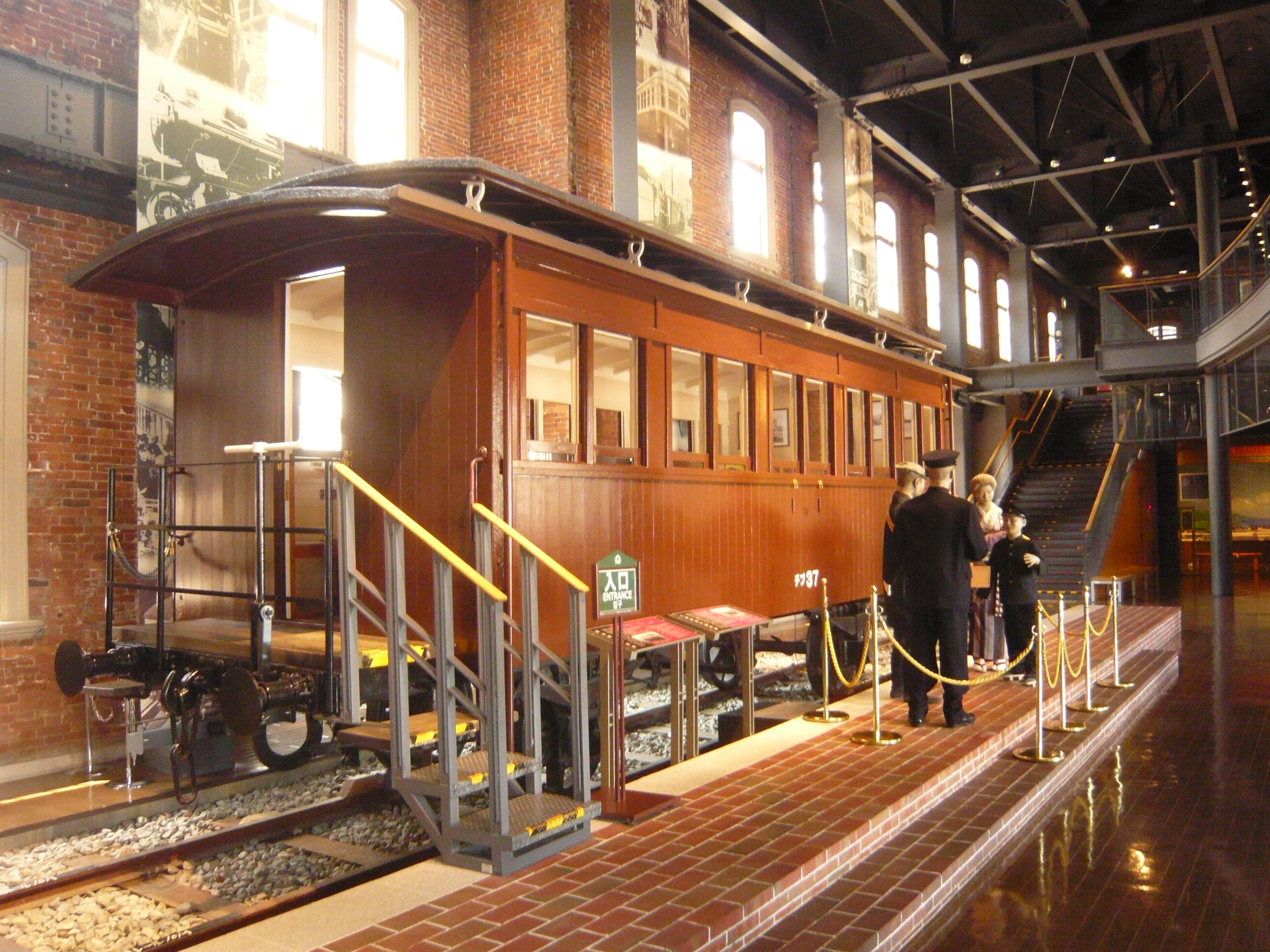 Kyushu Railway History Museum, Kitakyushu, Fukuoka, Japan